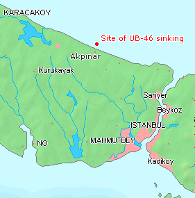 Site of the sinking of UB-46 on 7 December 1916.